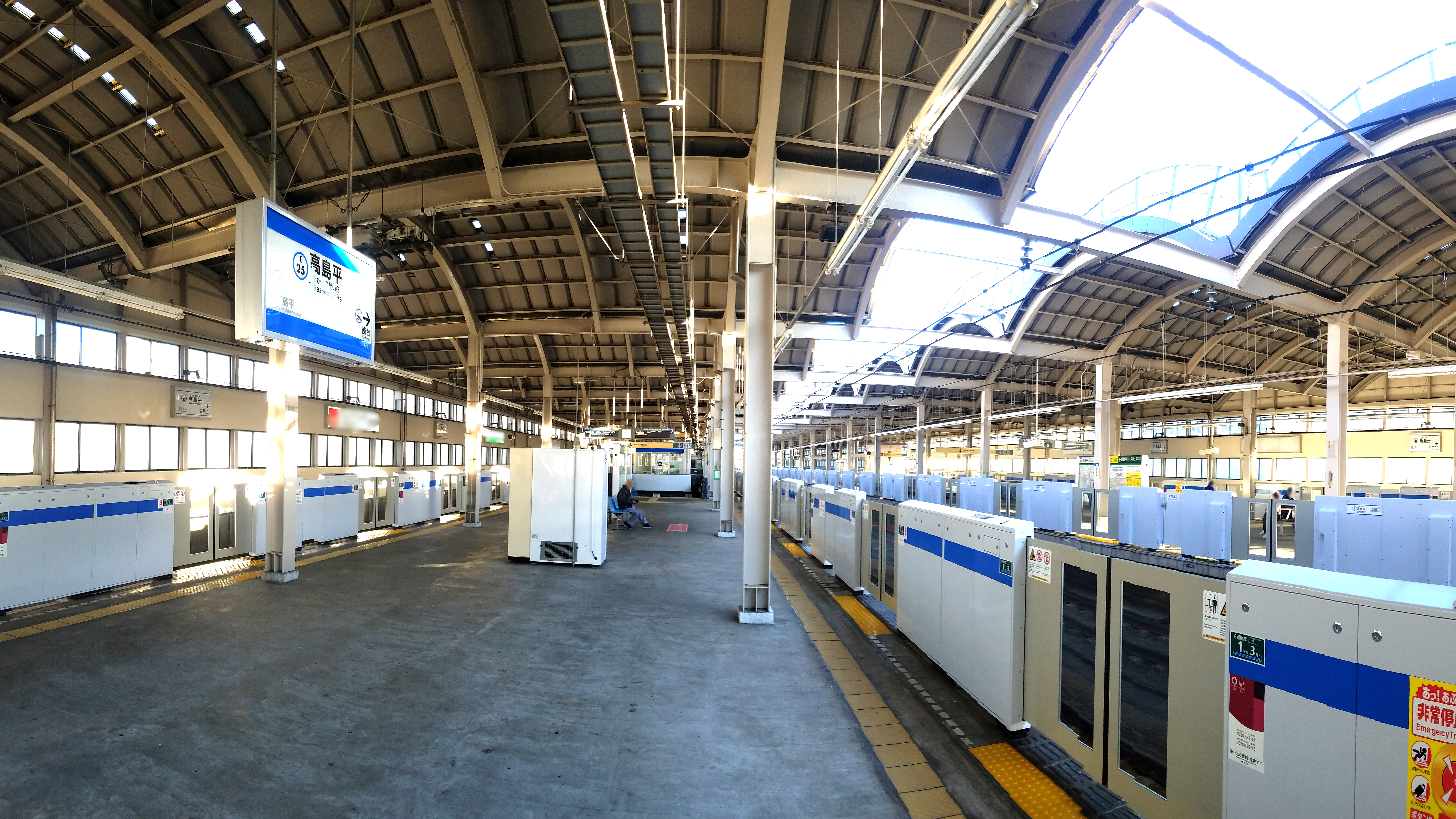 The Meguro-bound(no.1 and no.2) platform at Takashimadaira Station on the Toei Mita Line in Itabashi city, Tokyo, Japan